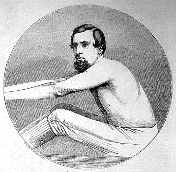 Henry Kelley (wood engraving)